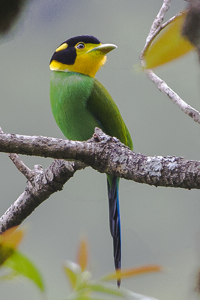 The species Long-tailed Broadbill had been photographed from Pangolakha Wildlife Sanctuary in East Sikkim, Sikkim, India on 21.04.2016.